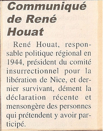 Cet article a été publié à la demande de René Houat, président du comité insurrectionnel. afin de rétablir la vérité sur les personnes présentes à la réunion du 27 août 1944, et de certifier sa présence à celle ci